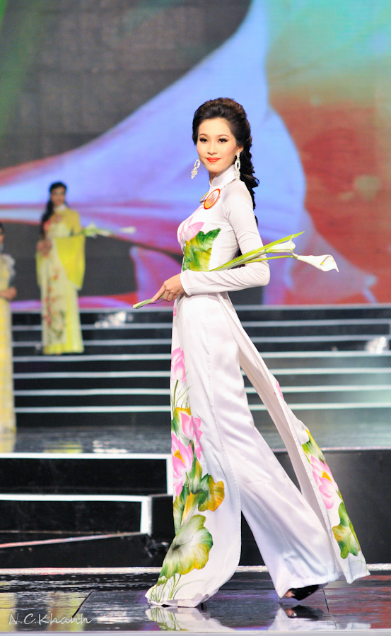 Miss Vietnam 2012